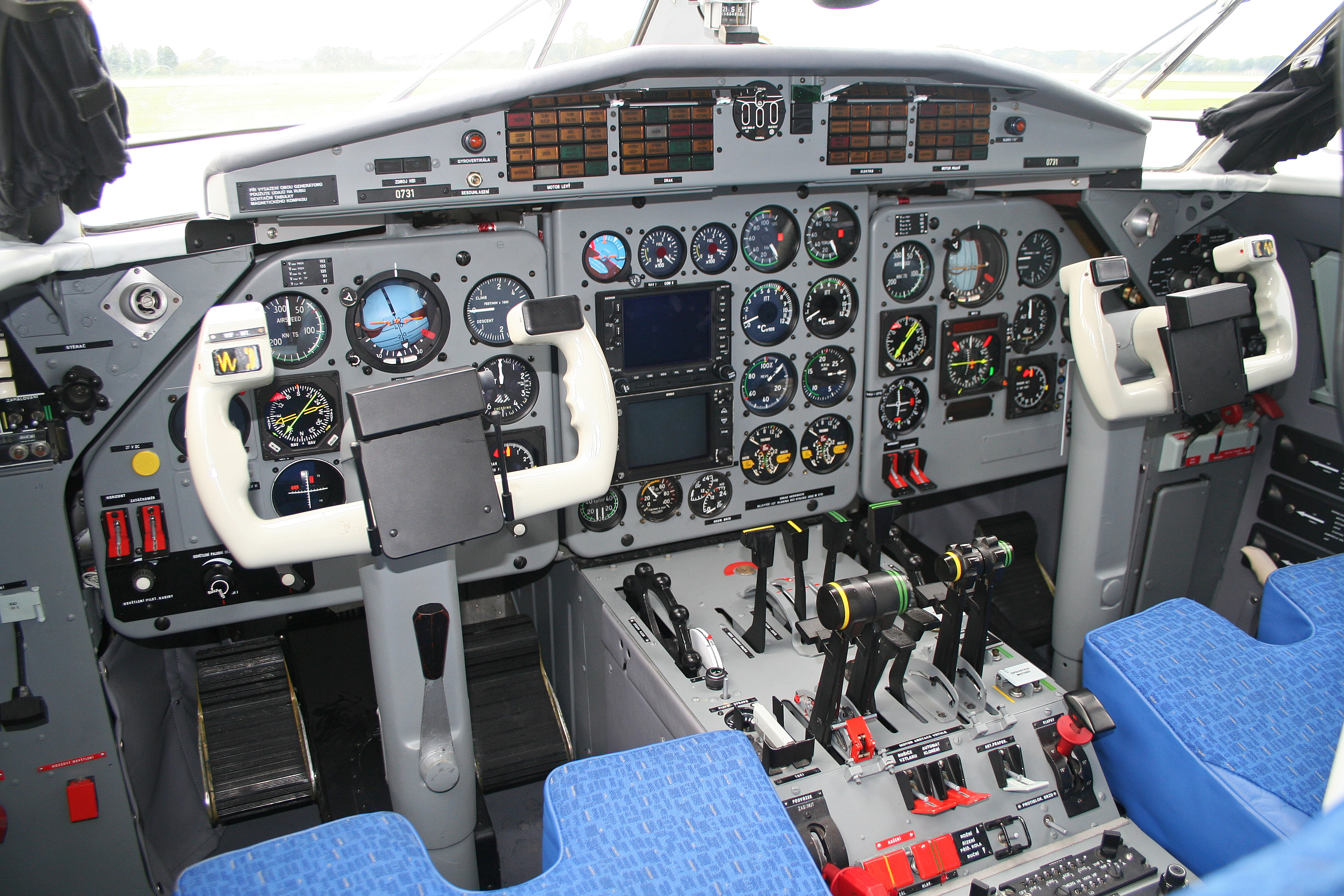 Operated by CLV. msn 810731. Pardubice, Czech Republic. 08-10-2012